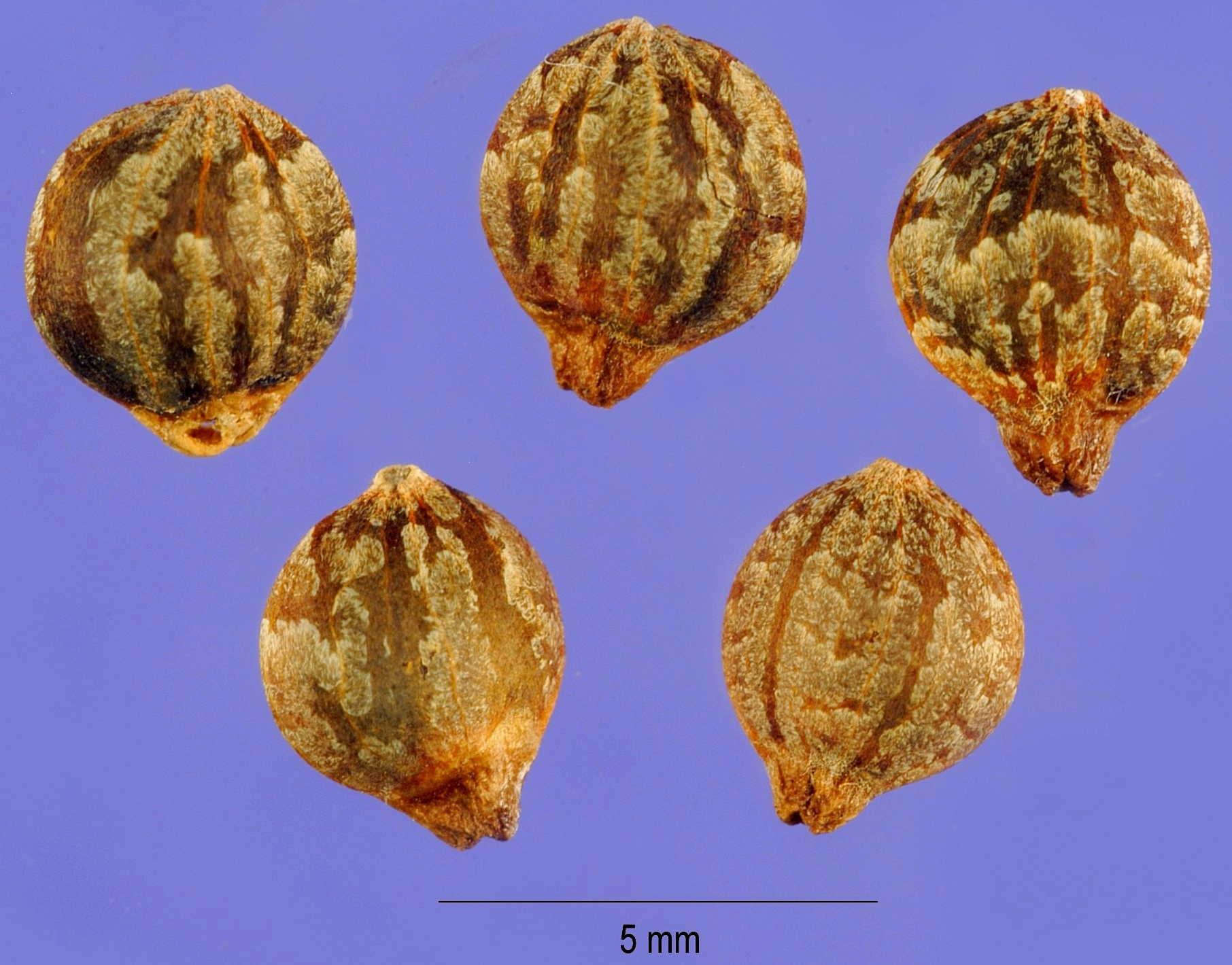 Japanese hop (Humulus japonicus), seeds